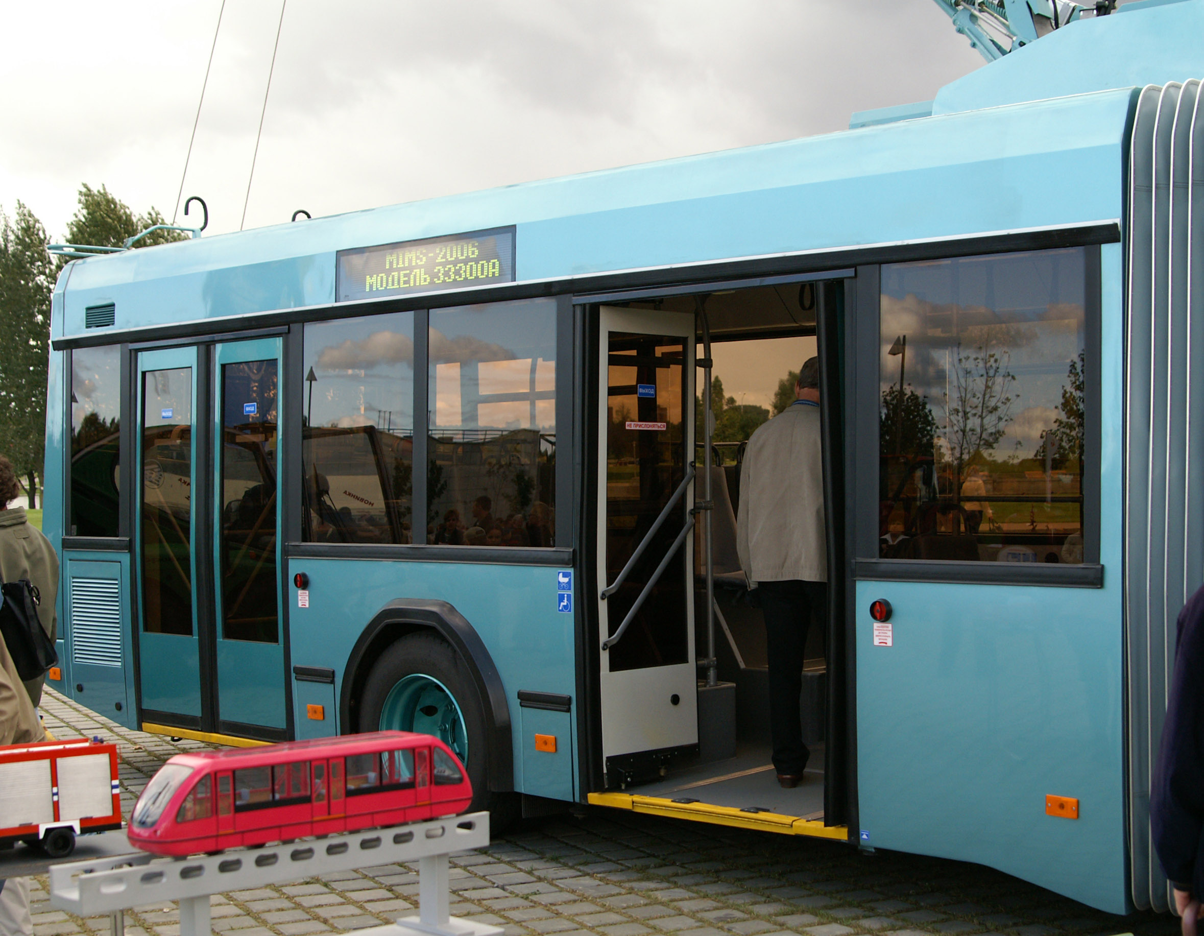 AKCM-333 trolleybus in Minsk